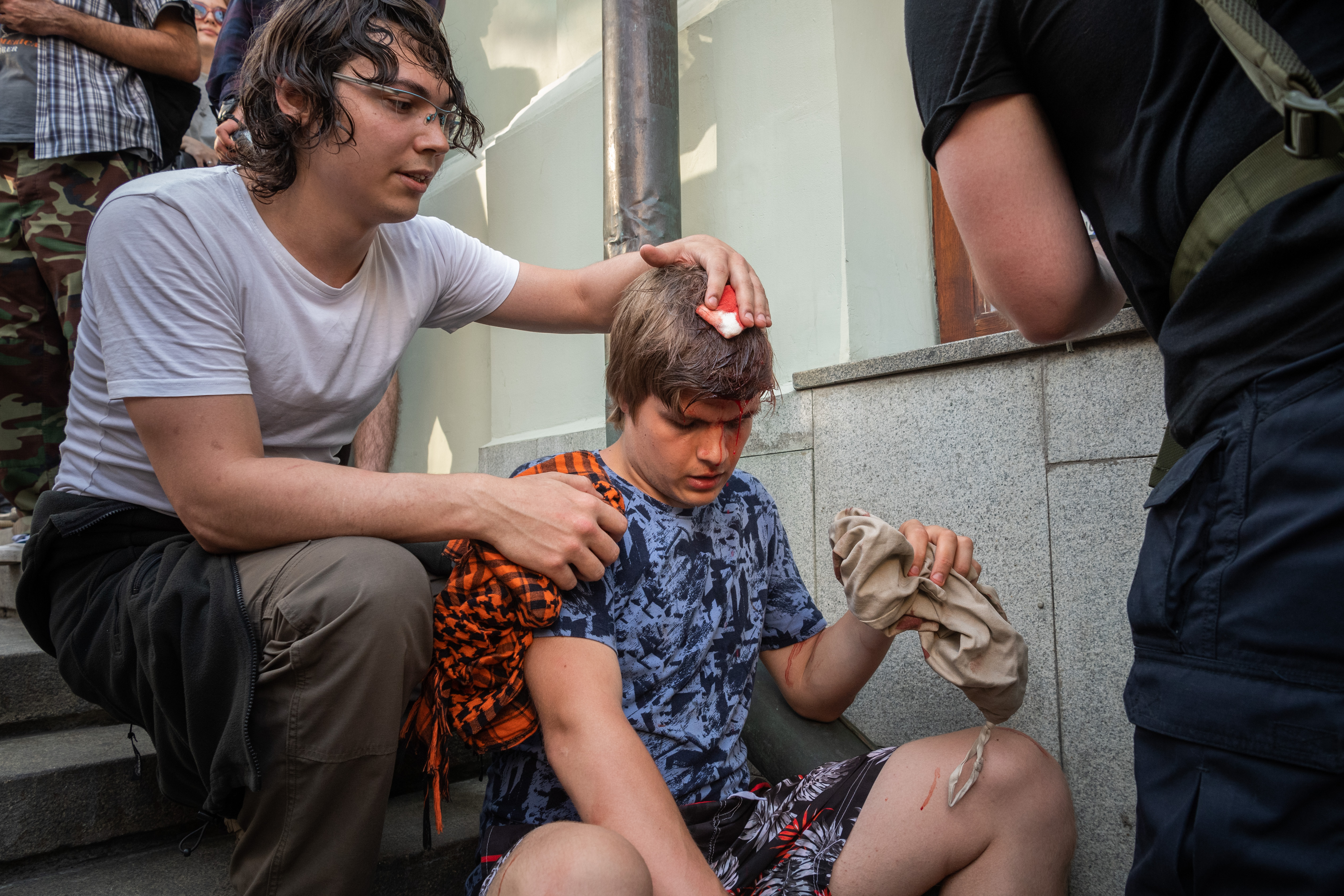 Rally in support of opposition candidates for deputies of the Moscow City Duma.